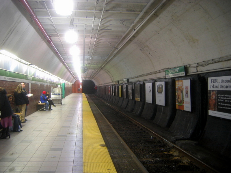 Inbound Green Line platform at Haymarket station